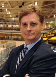 Michigan Tech Huskies head hockey coach Mel Pearson in the stands at John MacInnes Student Ice Arena in Houghton, Michigan.